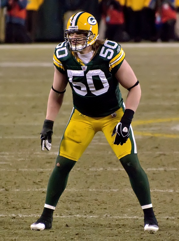 Lambeau Field - January 2, 2011. Photo by Mike Morbeck.